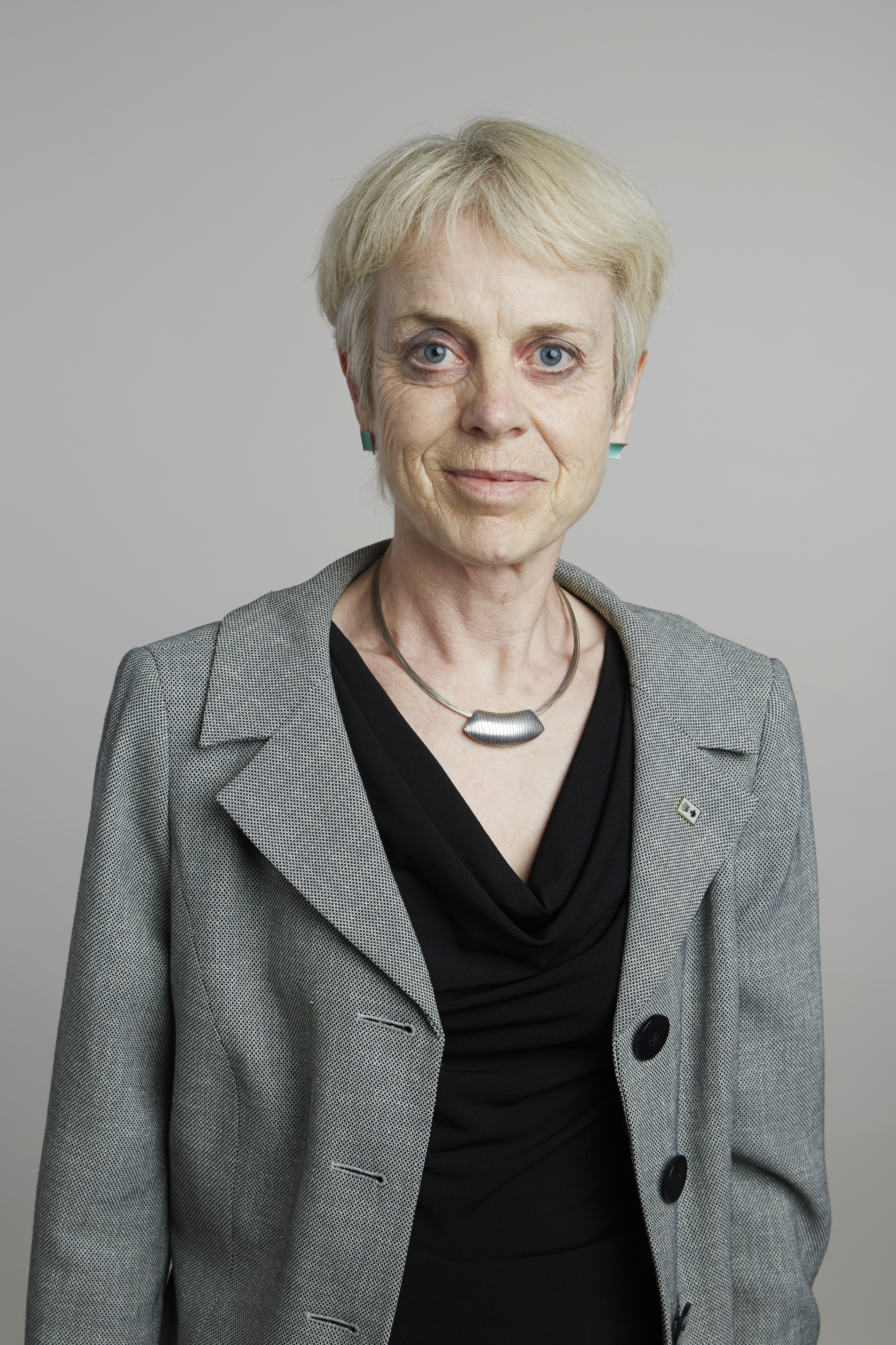 Annette Dolphin obtained her PhD from the University of London Institute of Psychiatry. After postdoctoral fellowships abroad, she joined the National Institute for Medical Research in London, subsequently becoming a lecturer at St George’s Hospital Medical School. In 1990, Anne was appointed Chair of the Department of Pharmacology at the Royal Free Hospital School of Medicine, moving to University College London (UCL) in 1997. She is currently Professor of Pharmacology in the Department of Neuroscience, Physiology and Pharmacology at UCL. Anne has received a number awards for her research, including the British Psychological Society (BPS) Sandoz Prize and the Pfizer Prize in Biology. She has also been awarded prize lectures such as the G. L. Brown Prize Lecture of the UK Physiological Society, the Julius Axelrod Distinguished Lecture in Neuroscience of the University of Toronto, the BPS Gary Price Memorial Lecture and, most recently, the Mary Pickford Lecture of the University of Edinburgh and the UK Physiological Society’s Annual Review Prize Lecture. She was elected a Fellow of the Academy of Medical Sciences in 1999. Attribution: The Royal Society